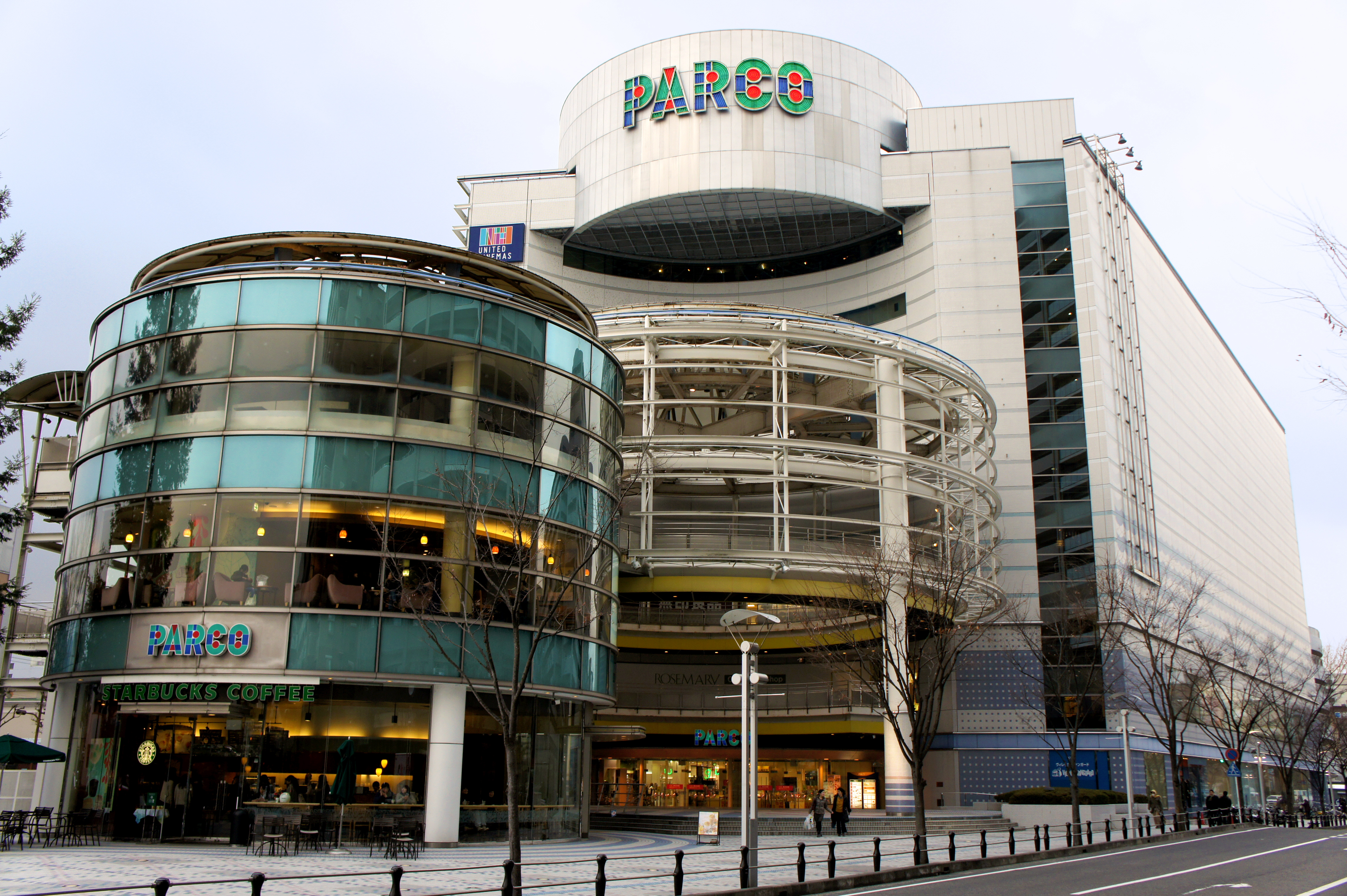 Otsu PARCO, 14-30 Uchidehama Otsu-City Shiga JAPAN.